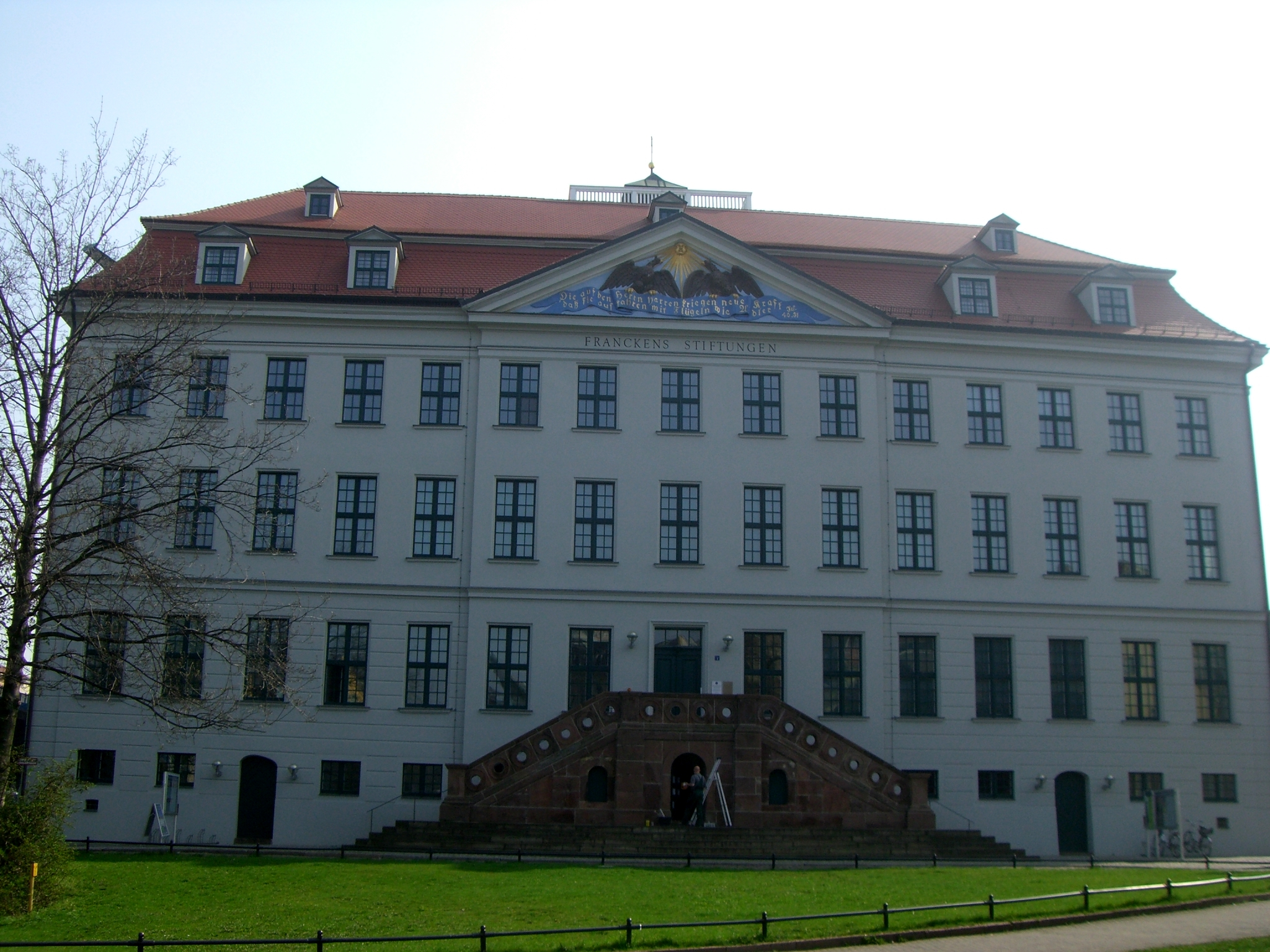 Main building of Franckesche Stiftungen, Halle